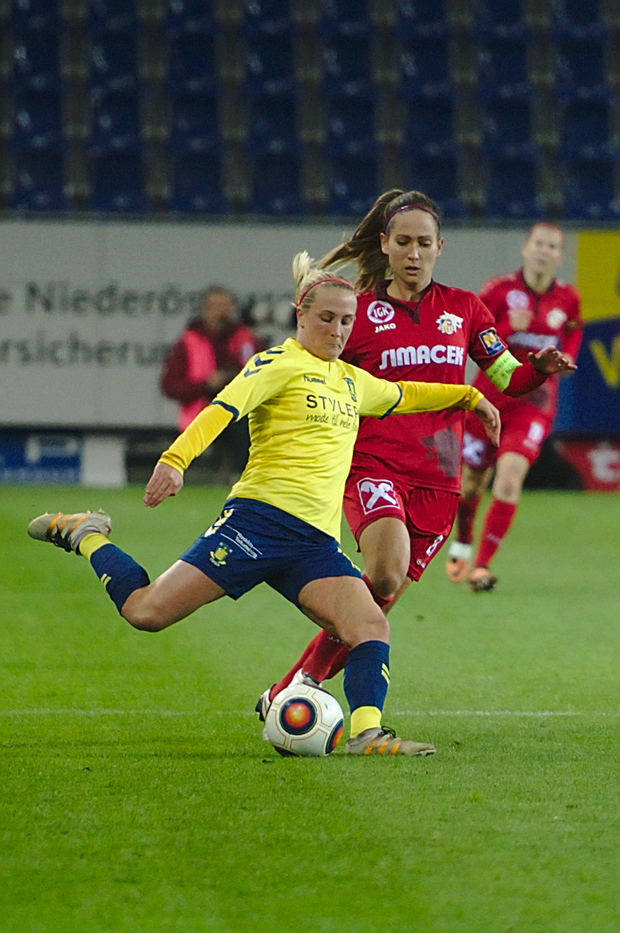 UEFA Women's Champions League Round of 32, SKN St. Pölten vs Brøndby IF am 5.10.2016. Bild zeigt Julie Trustrup Jensen (Brøndby) und Jasmin Eder (SKN).